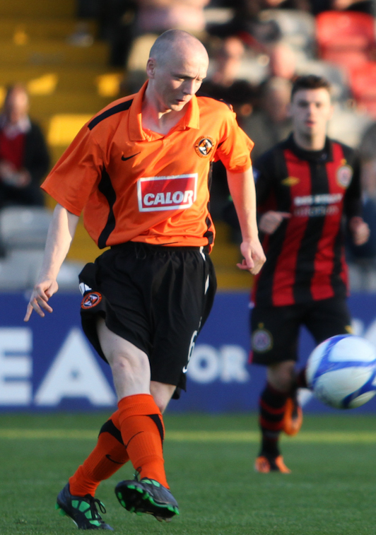 Bohemians V Dundee United (11 of 34)